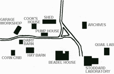 Created by user. Reduced to 4 bit color to save bandwidth and server space.